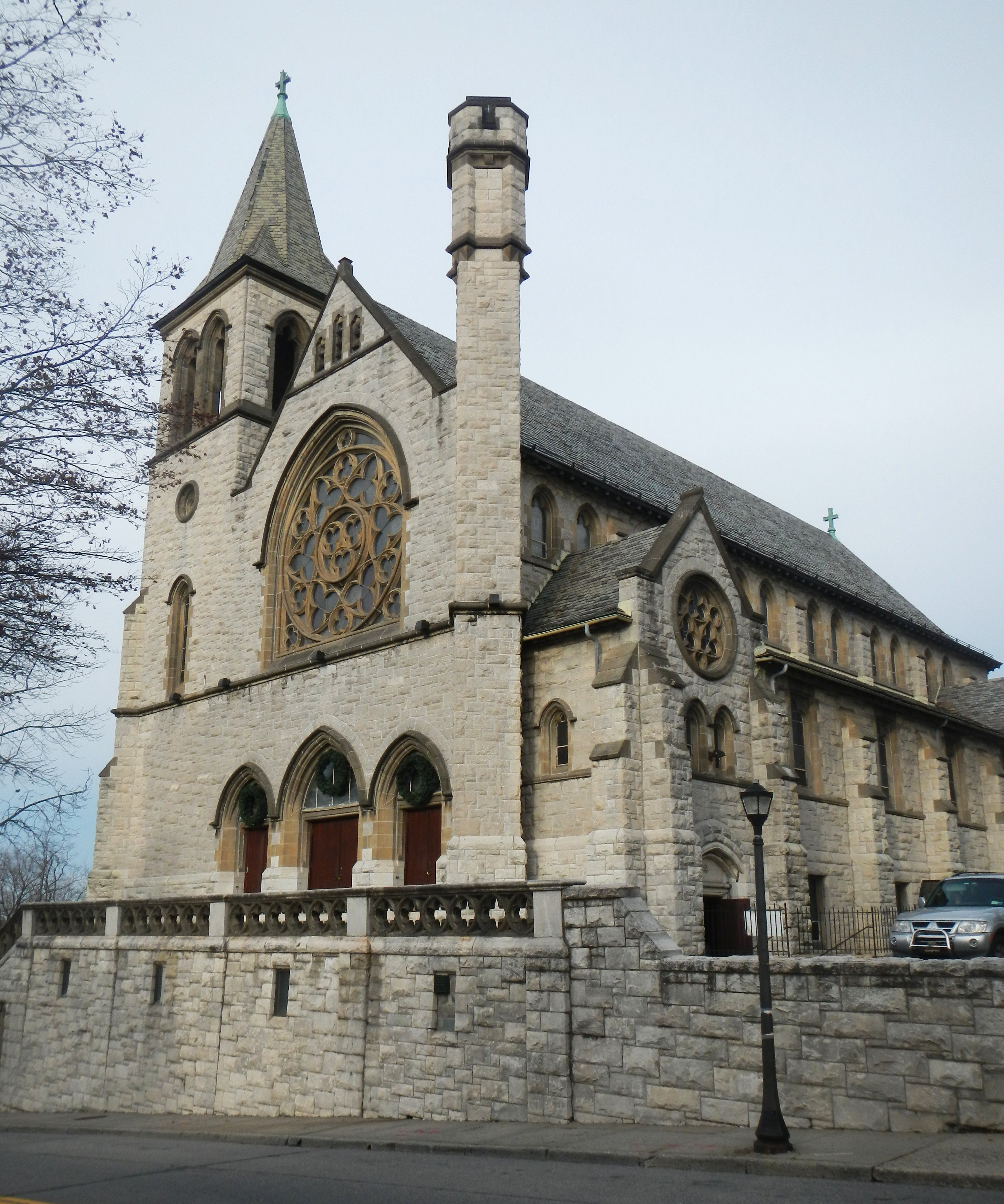 looking north, cropped version for use.